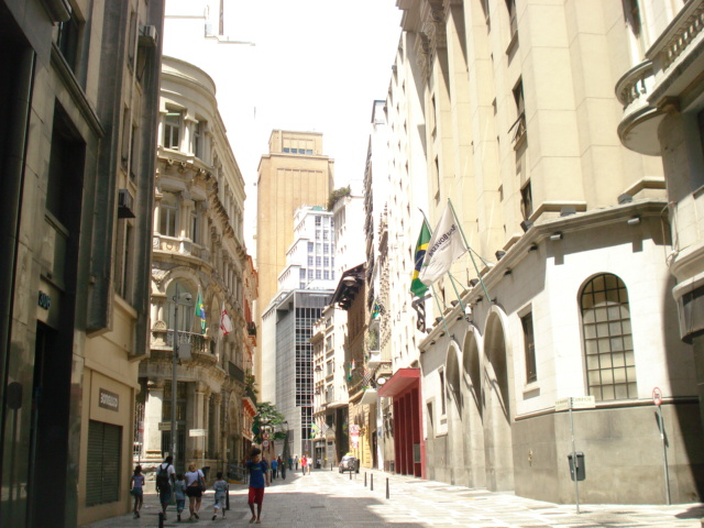 XV de Novembro Street, in Old Downtown of São Paulo City, Brazil.